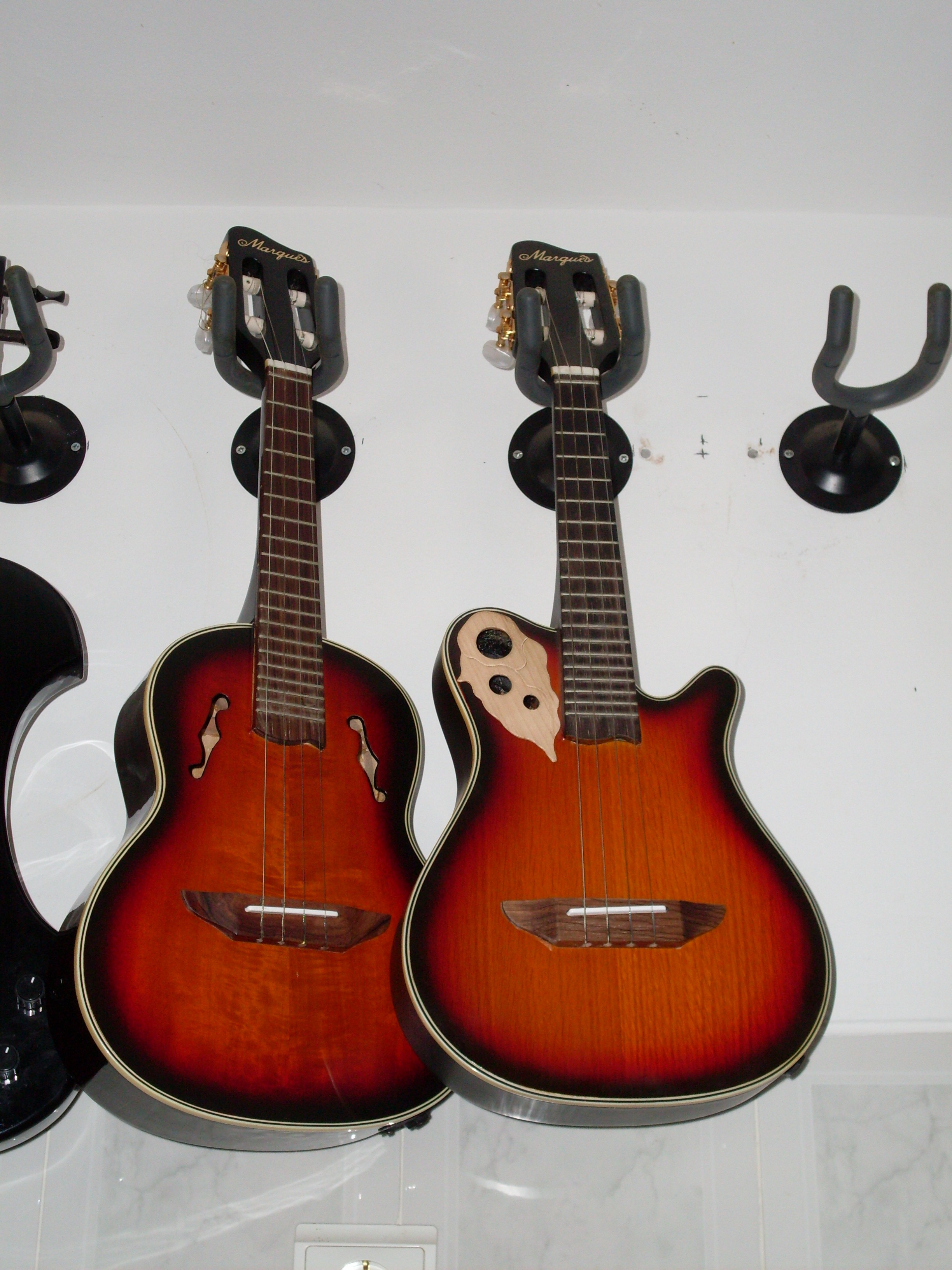 Two cavaquinhos. Many thanks to the Pentagrama music school for alowing me to take this picture.